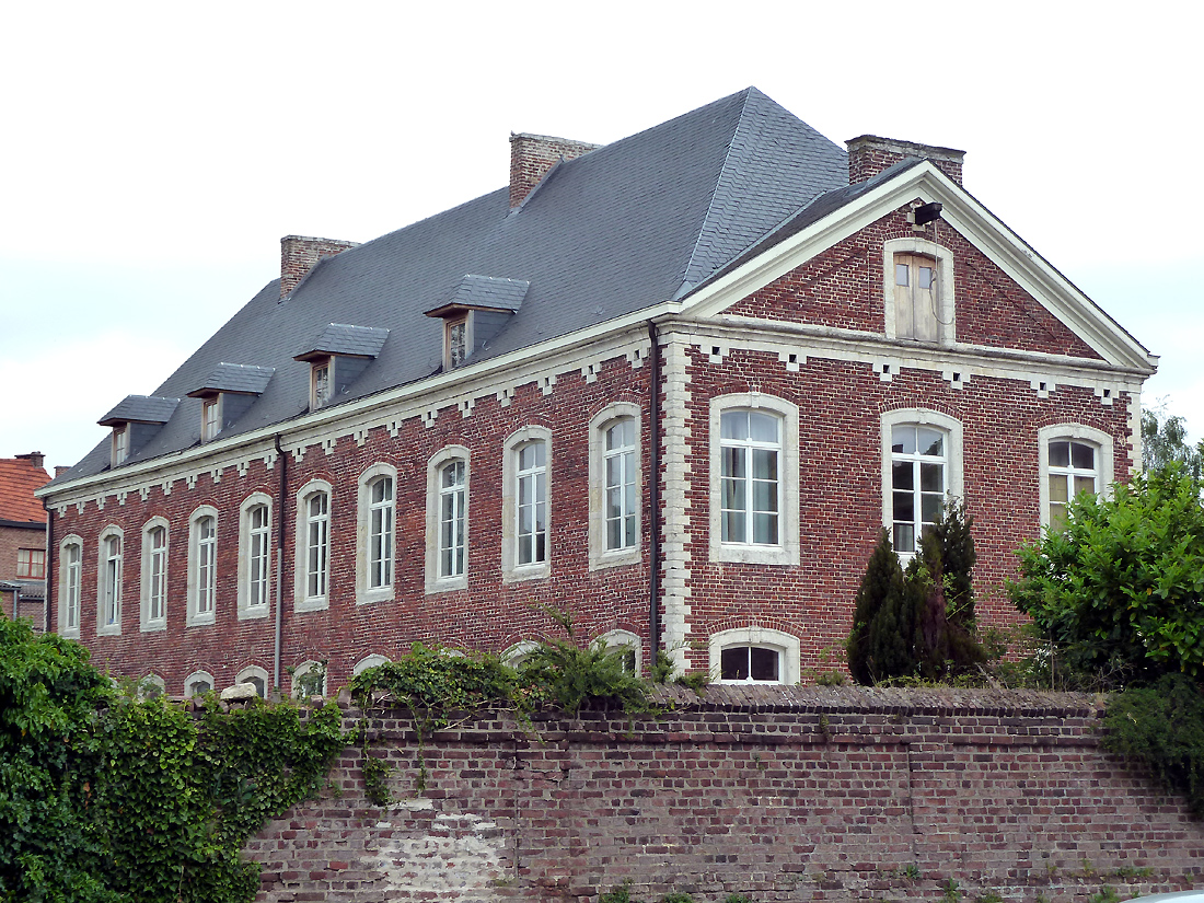 Begarden cloister Tienen